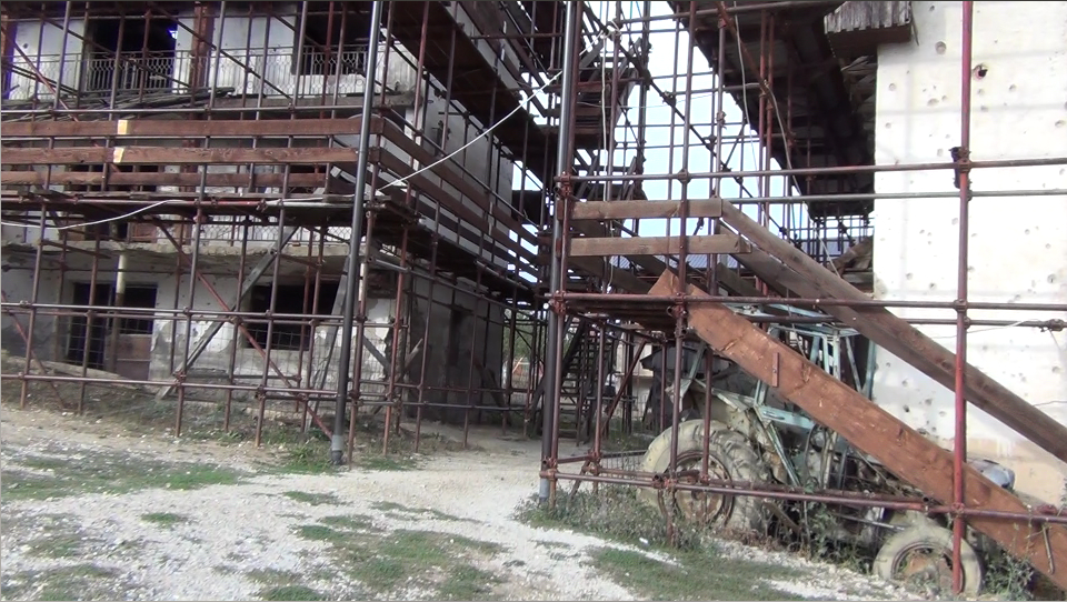 Home of Adem Jashari (KLA), now memorial.